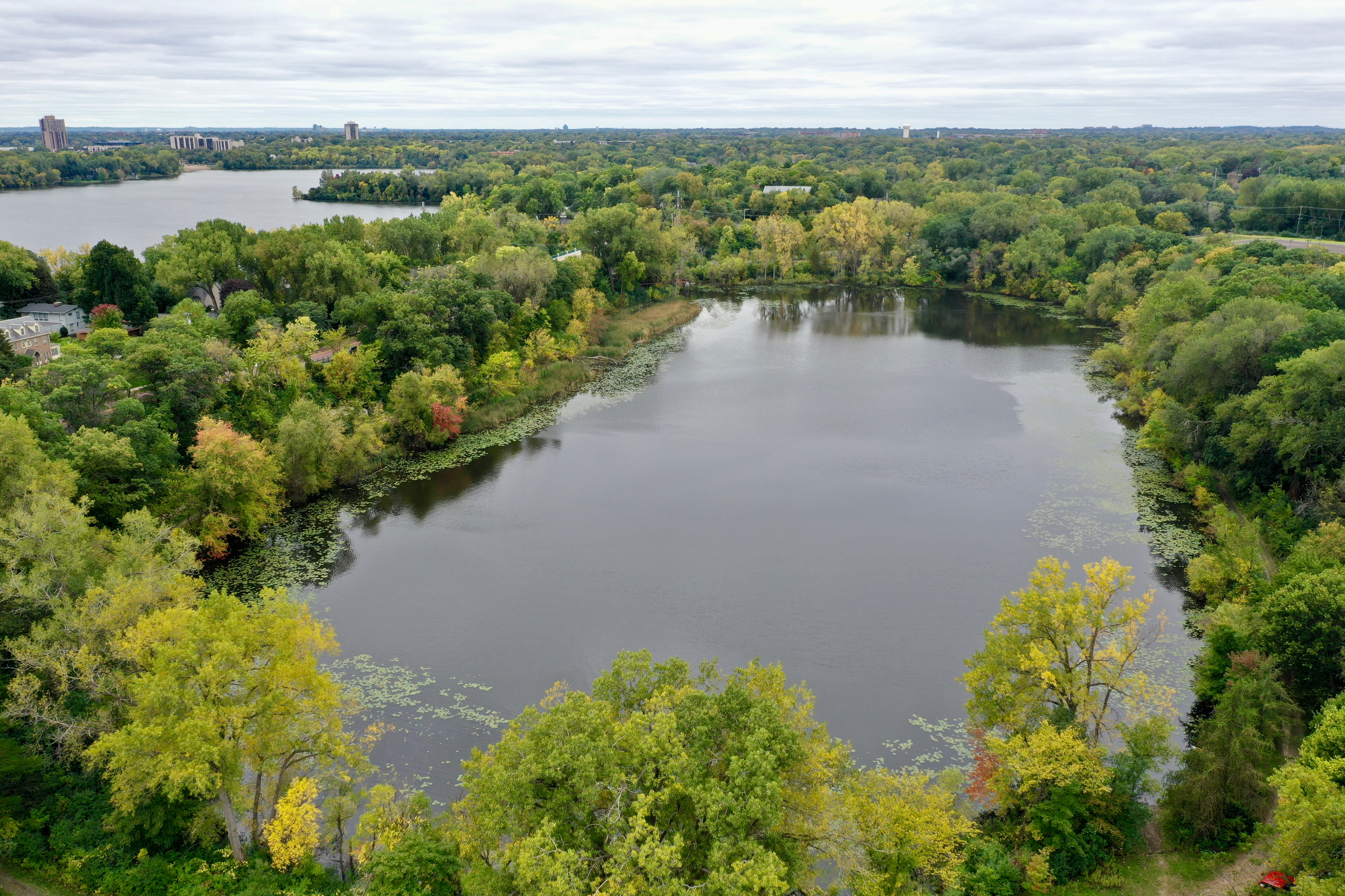 Aerial view of Brownie Lake from the northwest, October 2019.